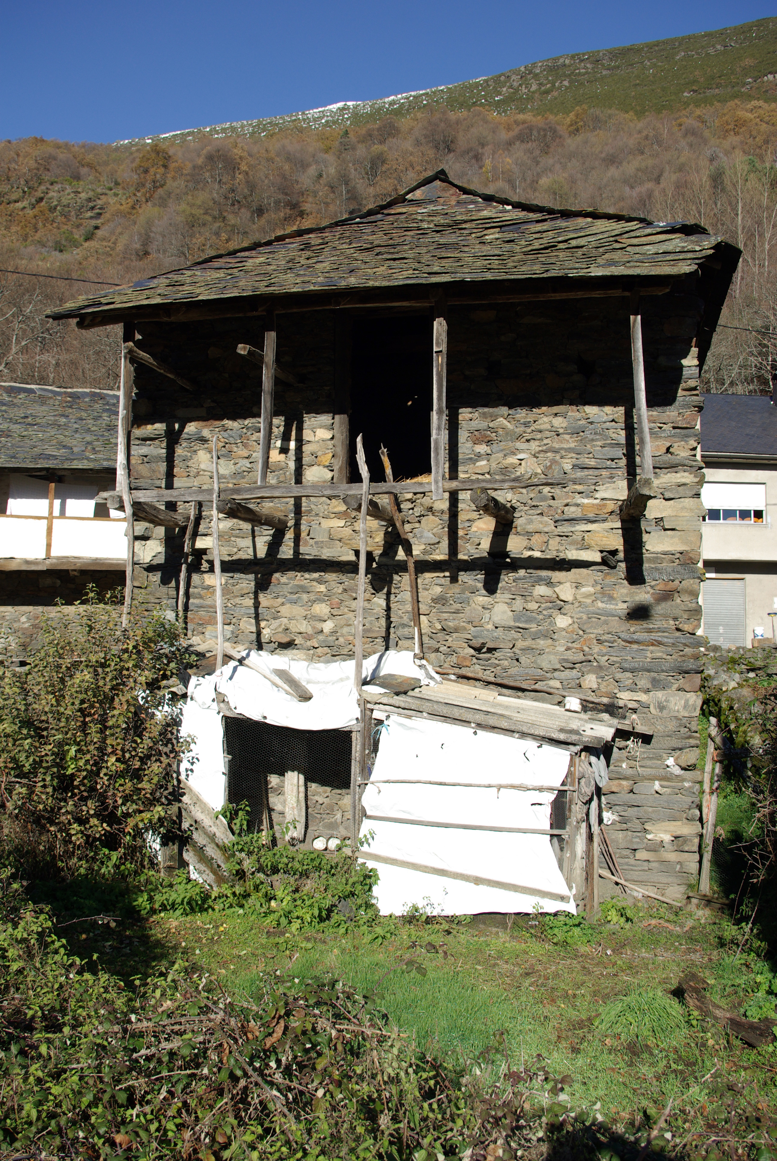 Vernacular architecture in Tejedo de Ancares (Candín, León, Spain)